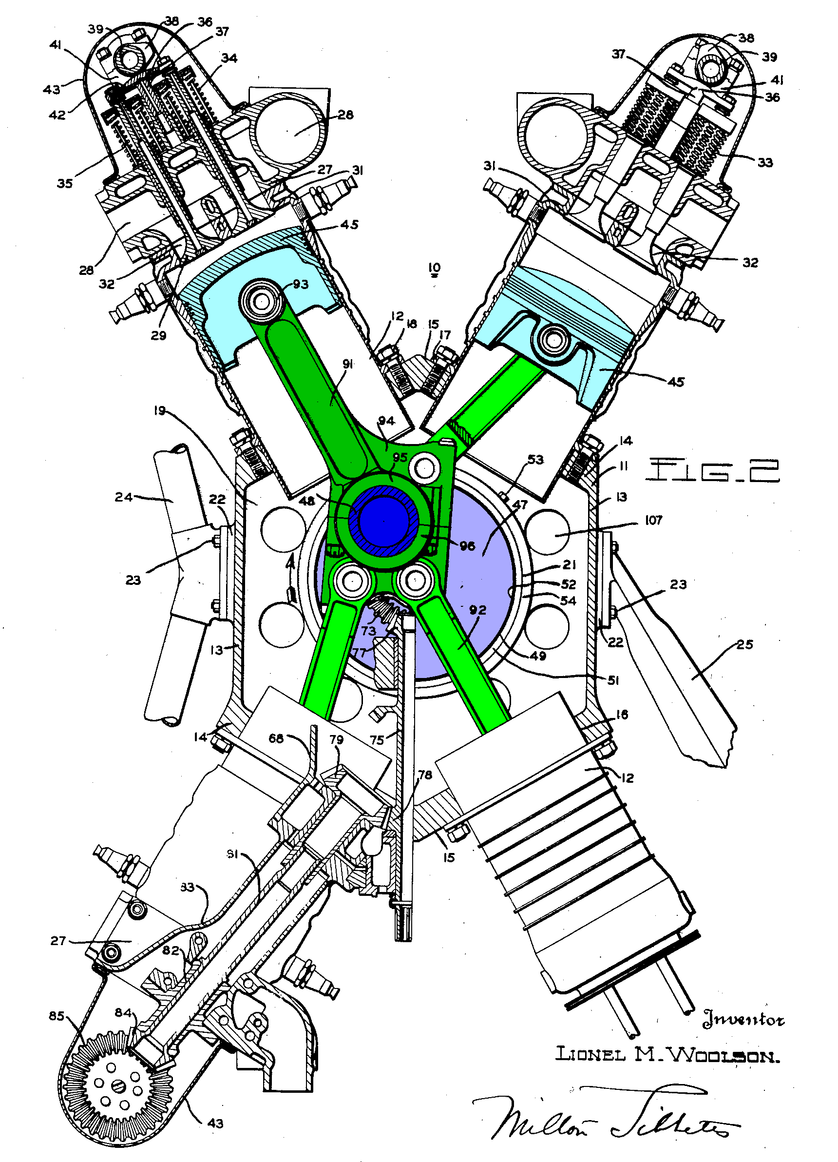 Fig. 2 is a view, partially n rear elevation and partially in transverse section through the engine shown in Fig. 1